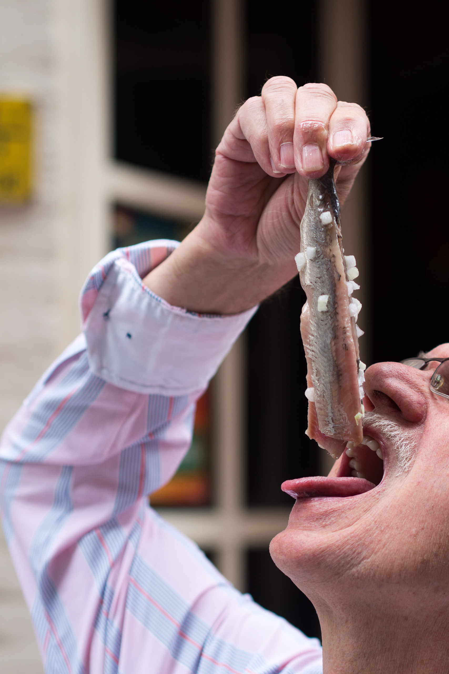 Eating a herring that was dipped in chopped onions the Dutch way